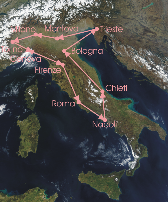 Map of Italy highlighting the stages of 1923 Giro d'Italia